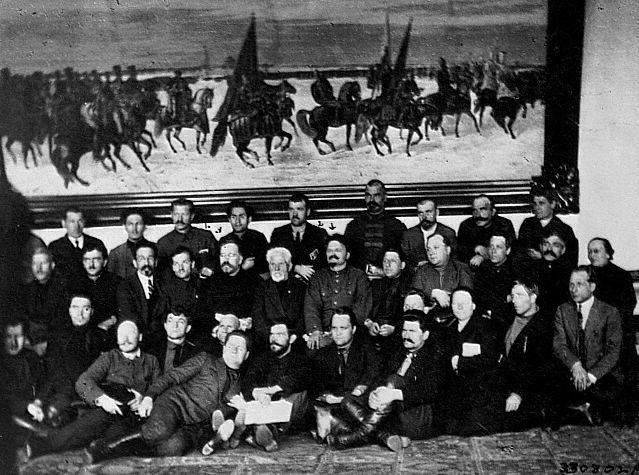 12 Jun 1923, Moscow, USSR --- Leon Trotsky gathers with the members of the 12th Congress of Russian Communists in the Kremlin. M. Kamenev also appears, substituting for Lenin.